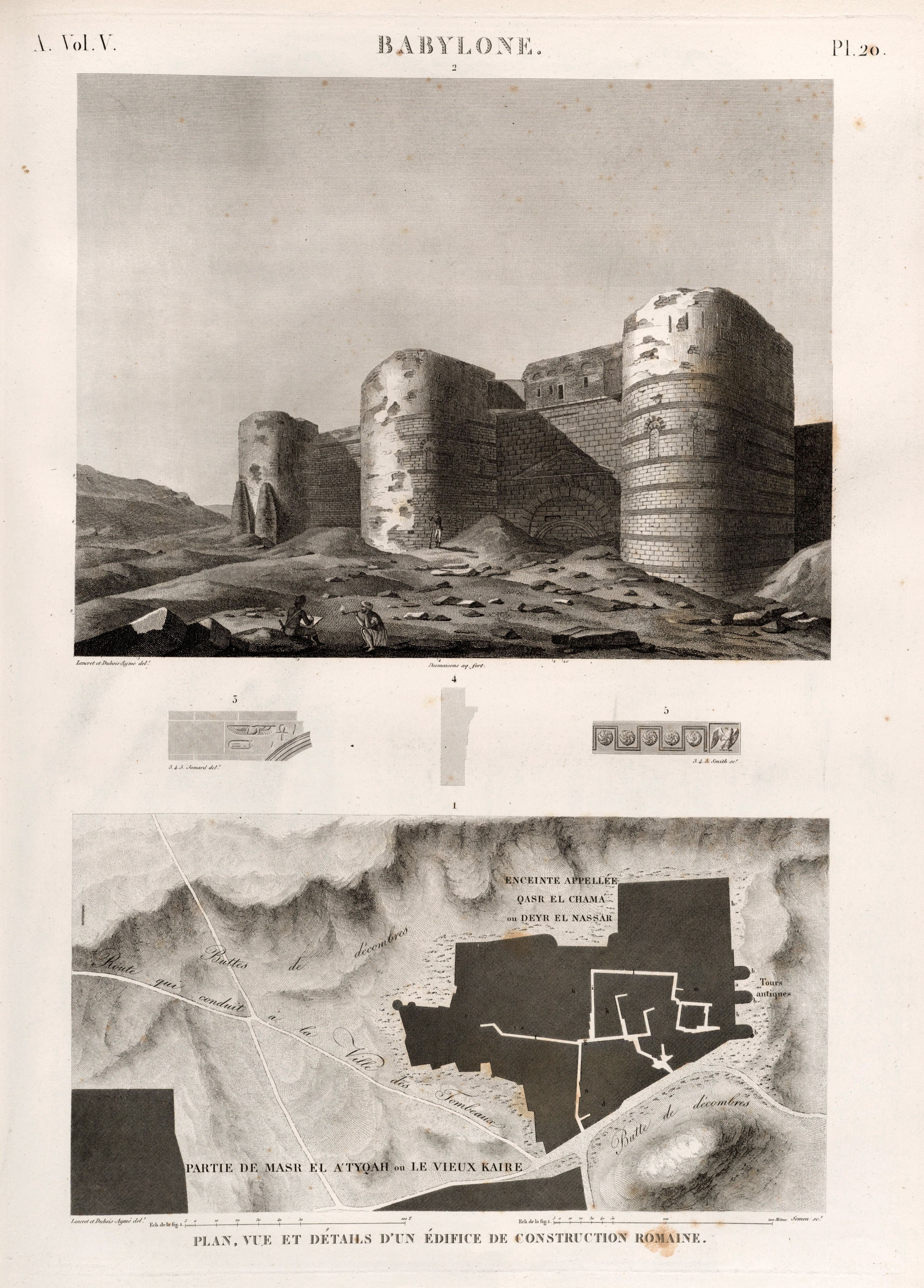 Babylone. Plan, vue et détails d'un édifice de construction romaine.